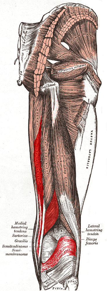 Muscles of the gluteal and posterior femoral regions with current muscle highlighted